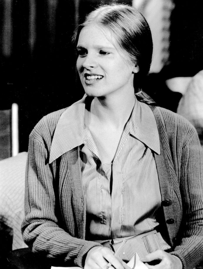 Photo of actress Kathy Cronkite (daughter of former anchorman Walter Cronkite) as a guest star on the television program The Waltons. This was her debut as an actress.